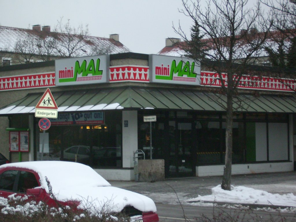 Entrance of "miniMAL" Store - Munich, Germany.